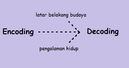 my own photo